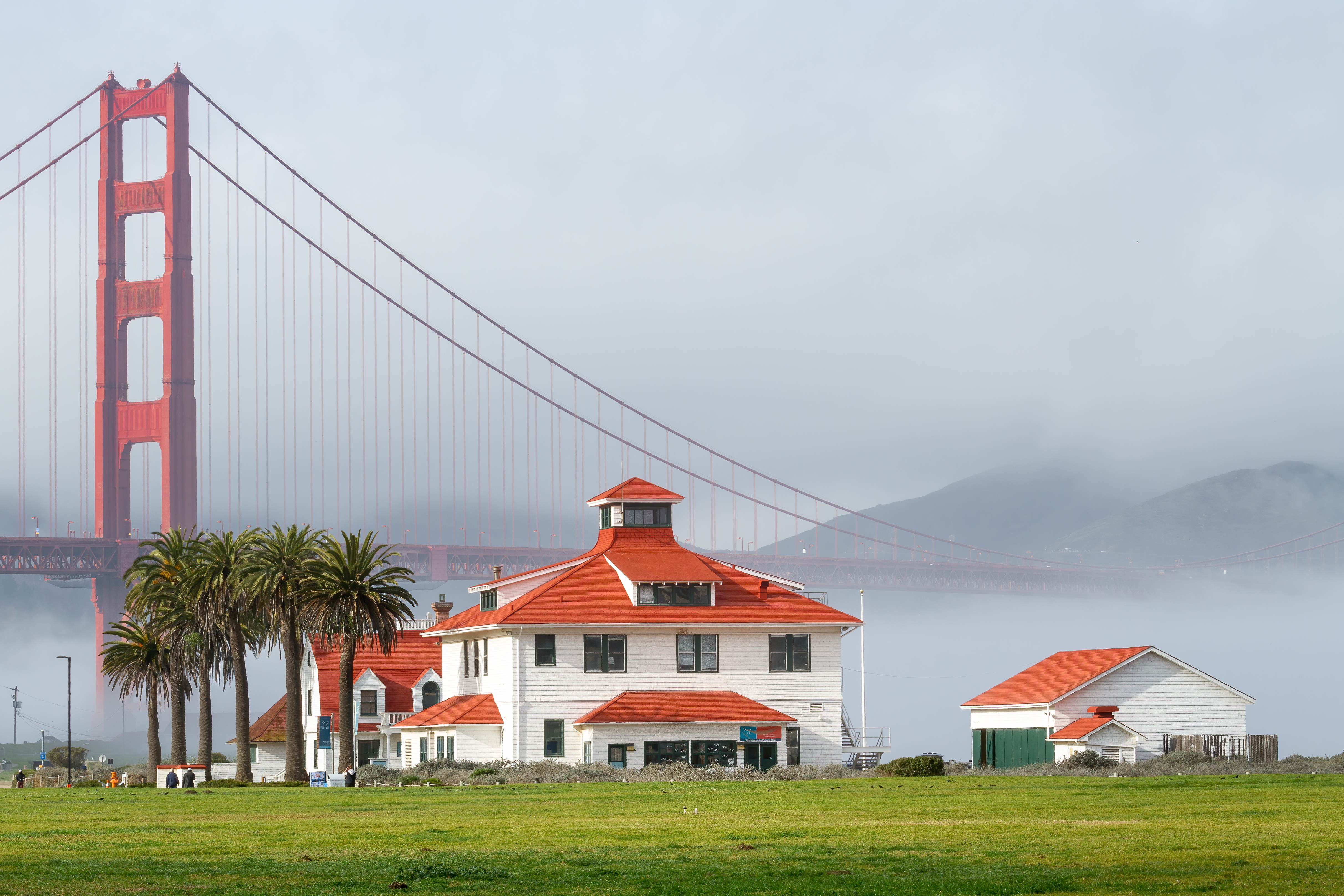 Old Crissy Field Coast Guard Station in the Presidio of San Francisco.